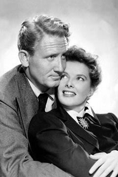 Promotional image of Katharine Hepburn and Spencer Tracy for the 1945 film Without Love. Such images were taken by a studio photographer, and then disseminated to the media and the public to promote the film. (see Film still.) Public domain explanation It is unlikely that this image was secured with copyright protection, as stated by film industry experts: "Publicity photos (star headshots) have traditionally not been copyrighted. Since they are disseminated to the public, they are generally considered public domain, and therefore clearance by the studio that produced them is not necessary." — Eve Light Honthaner, The Complete Film Production Handbook, (Focal Press, 2001 p. 211) "According to the old copyright act, such production stills were not automatically copyrighted as part of the film and required separate copyrights as photographic stills ... Most studios have never bothered to copyright these stills because they were happy to see them pass into the public domain, to be used by as many people in as many publications as possible." — Gerald Mast in Film Study and the Copyright Law (1989, p. 87) If there is any chance that the photograph was copyrighted, under the terms of the 1909 Copyright Act (which was law until 1978) it would have had to be renewed 28 years after publication. A search for copyright renewal records of 1973 ([1],[2]) reveal no trace that this occurred.